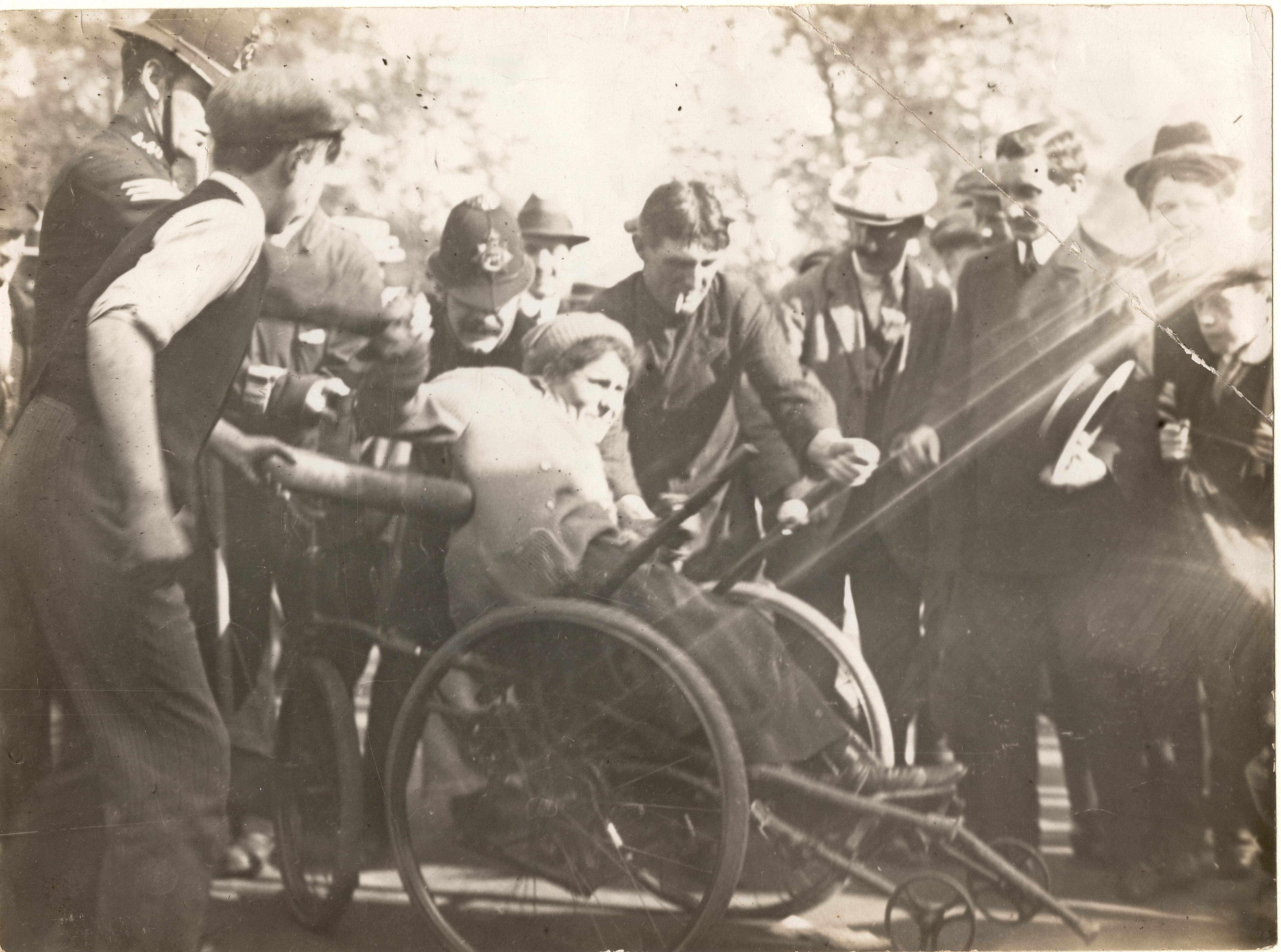 Rosa May Billinghurst suffragette in 1900s